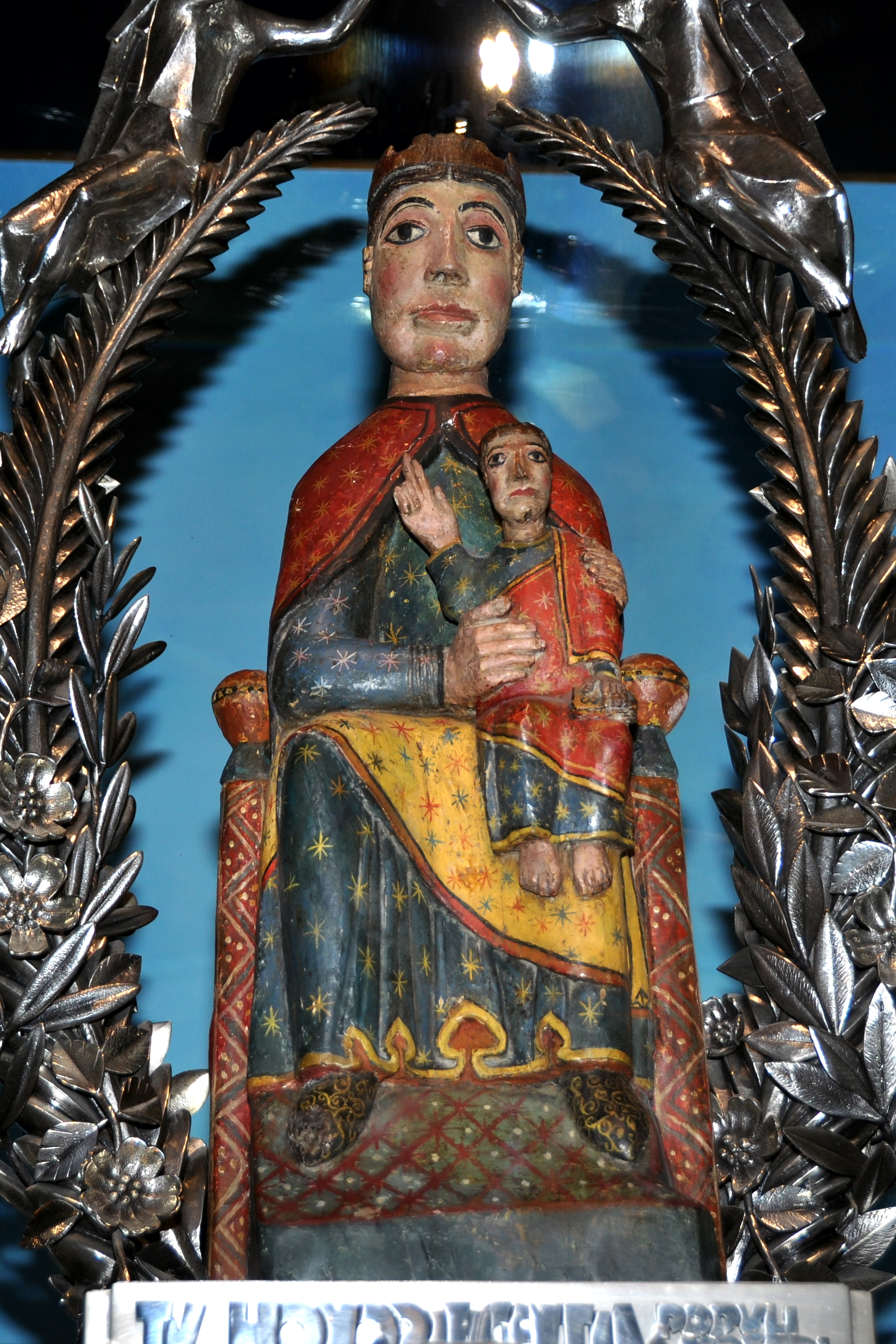 Romanesque statue of Our Lady of Nuria.12tc-13thc Century